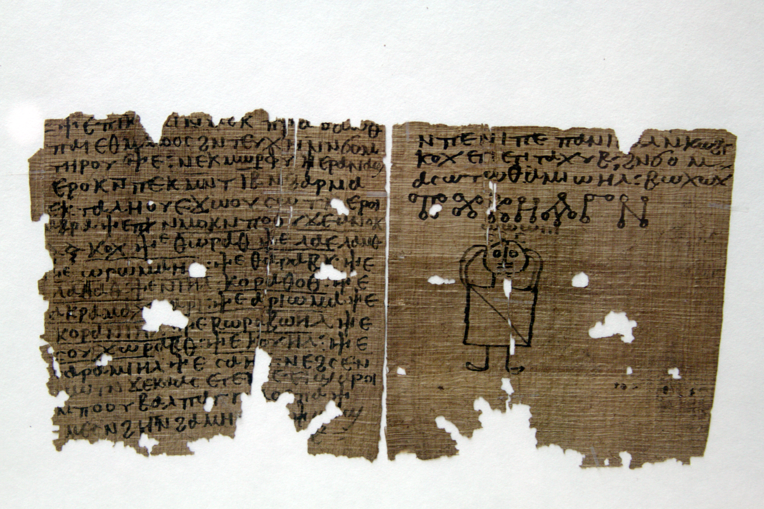 Museo Archeologico - Milan